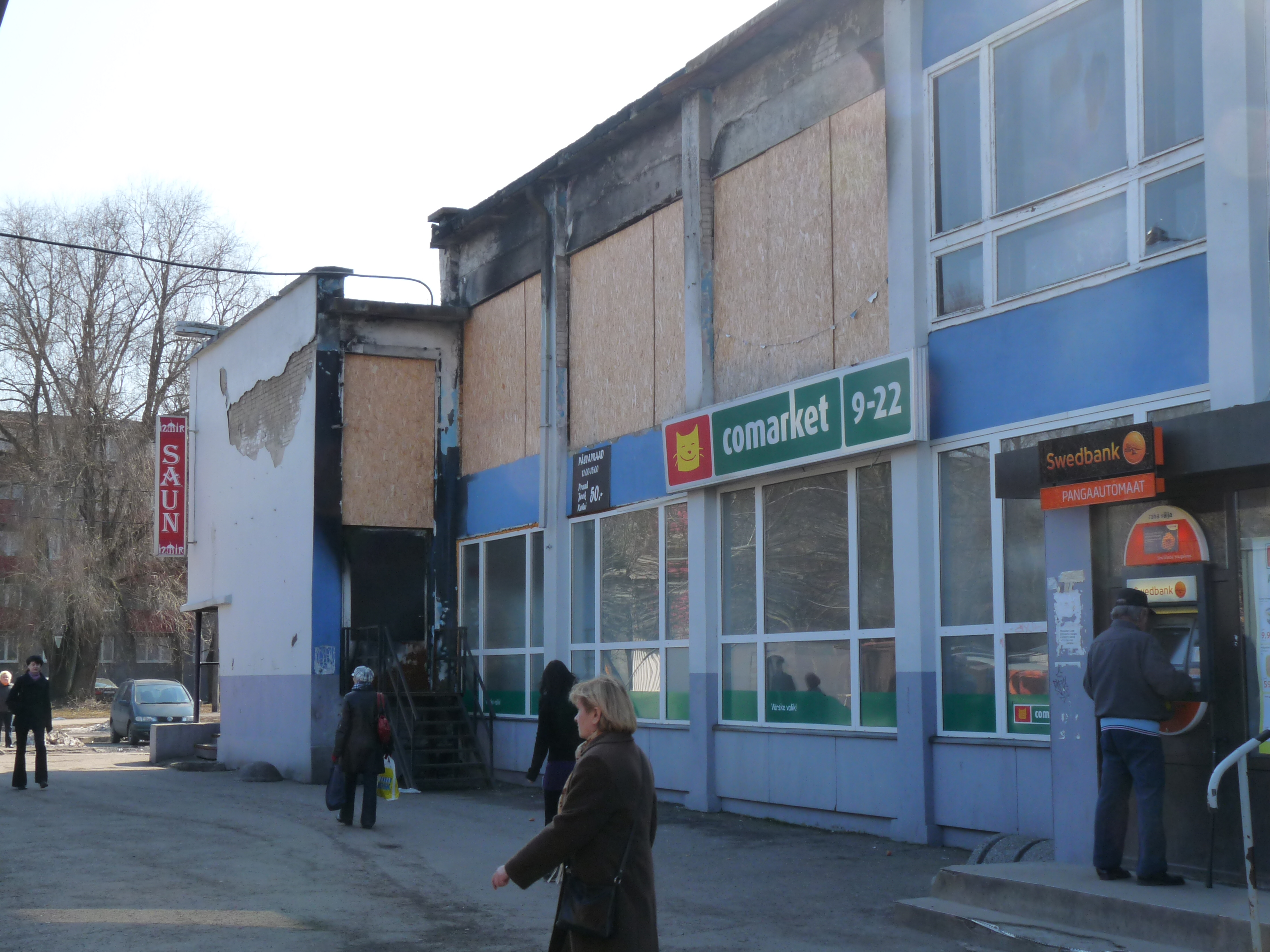 Szolnok after explosion. Due to investigation, nobody was arrested for making bomb and nobody was arrested for making explosion. Below is a Comarket grocery store.